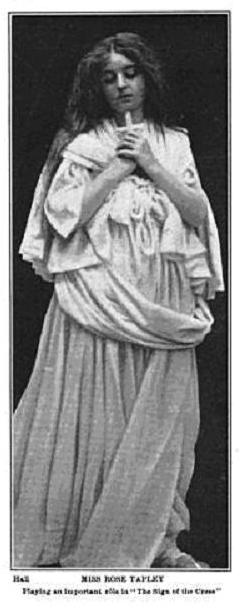 Rose Tapely in The Sign of the Cross ca.1904